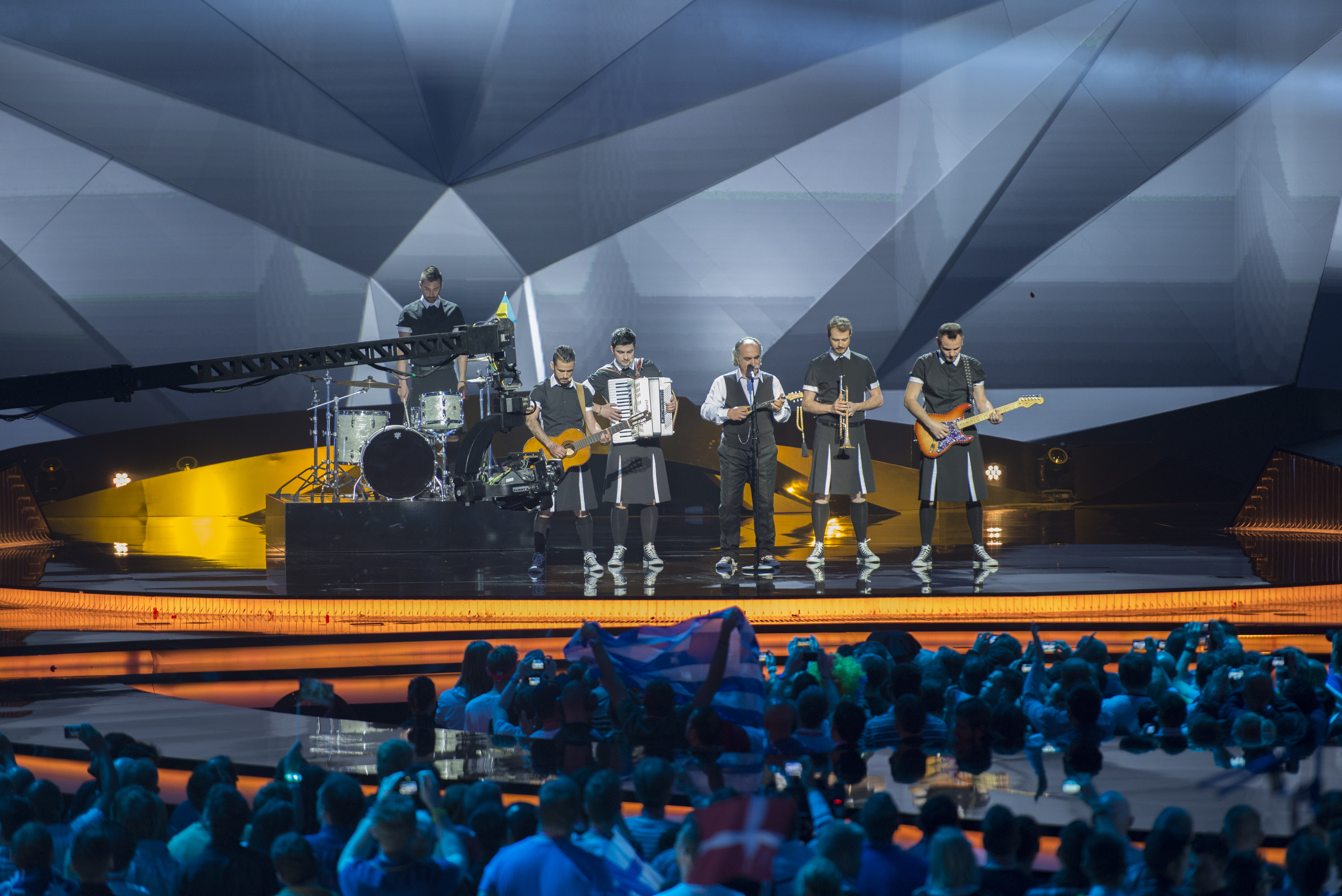 Koza Mostra feat. Agathon Iakovidis representing Greece with the song "Alcohol Is Free" during the second dress rehearsal of the second semi final of the Eurovision Song Contest 2013 in Malmö. (Help translate this text)